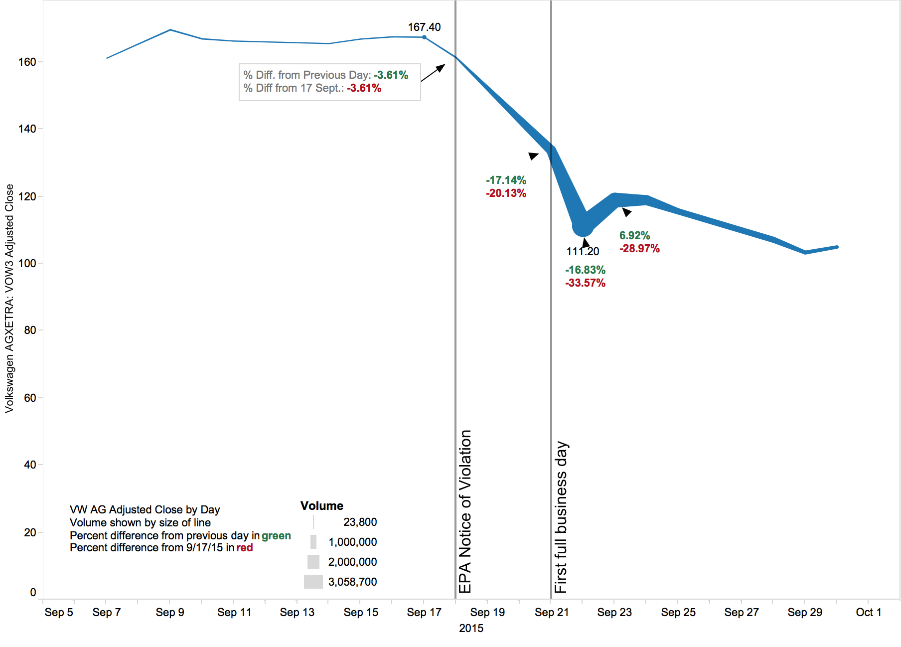 Aftermath of Volkswagen emissions violations showing price of Volkswagen AG (VOW.DE) stock, Adjusted Close. Width of line shows Volume. Marked in green is the percent difference from previous day's close. In red is the percent difference from the close on September 17, 2015, before the news broke. Created with Tableau